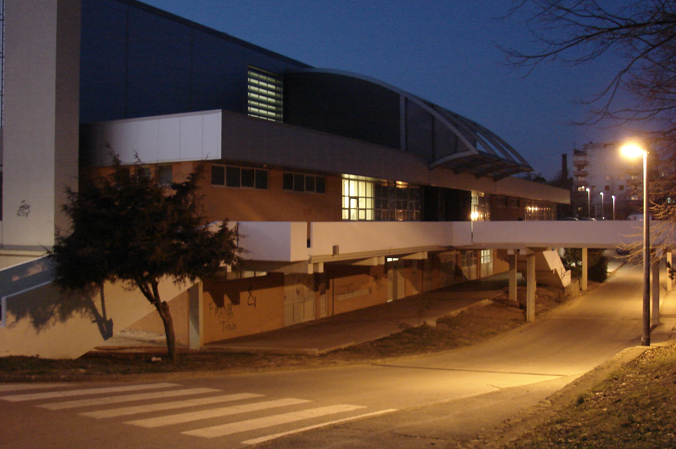 Mate Parlov Sports Hall in Pula (December 2008).